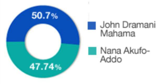 Ghana presidential election, 2012 result chart.